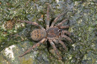 Female Ryuthela nishihirai from Okinawa.